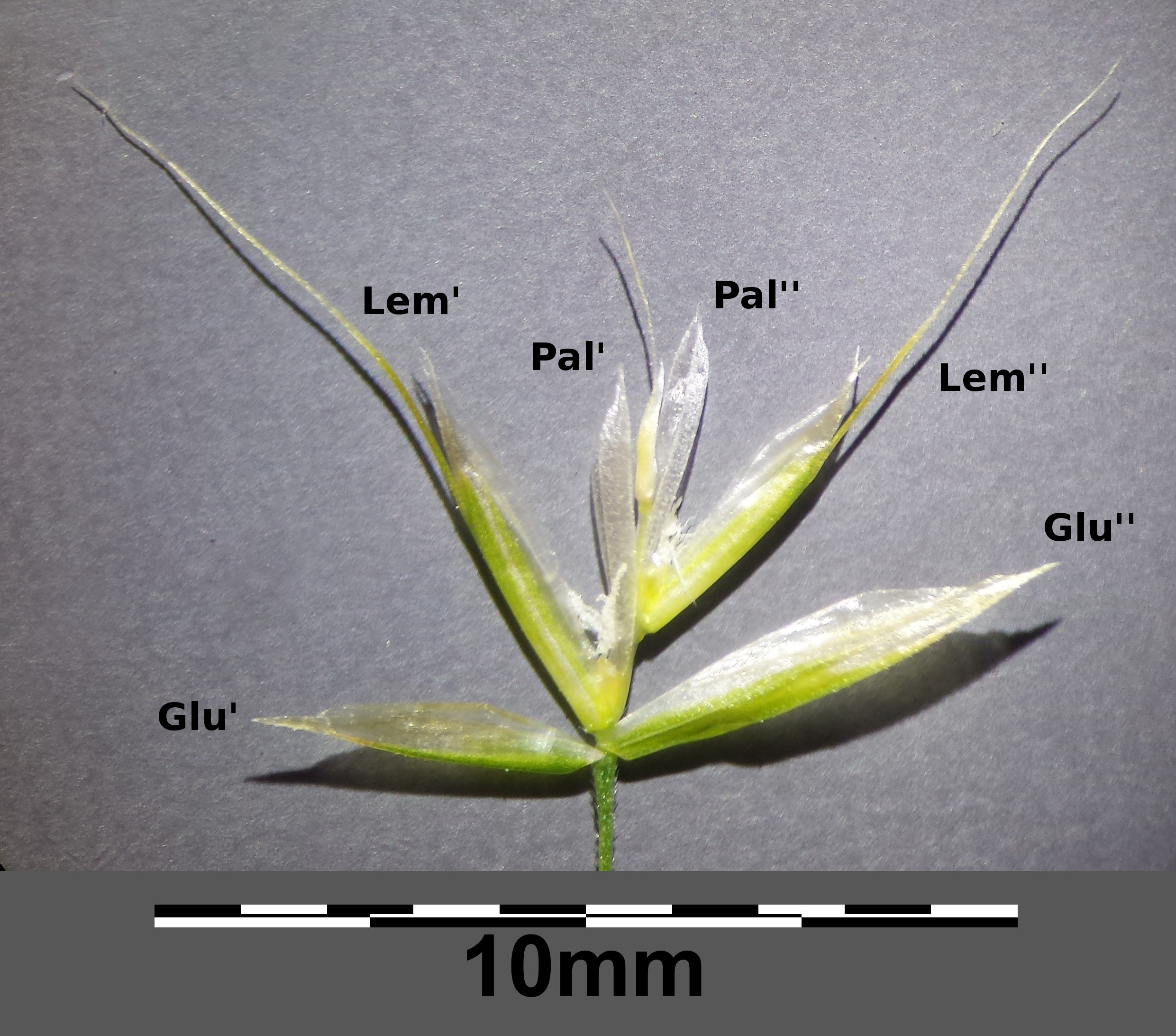 Spikelet Glu = Gluma Lem = Lemma Pal = Palea Taxonym: Trisetum flavescens subsp. flavescens ss Fischer et al. EfÖLS 2008 ISBN 978-3-85474-187-9 Location: "In der Hölle" near Wetzleinsdorf, district Korneuburg, Lower Austria - ca. 280 m a.s.l. Habitat: fallow land